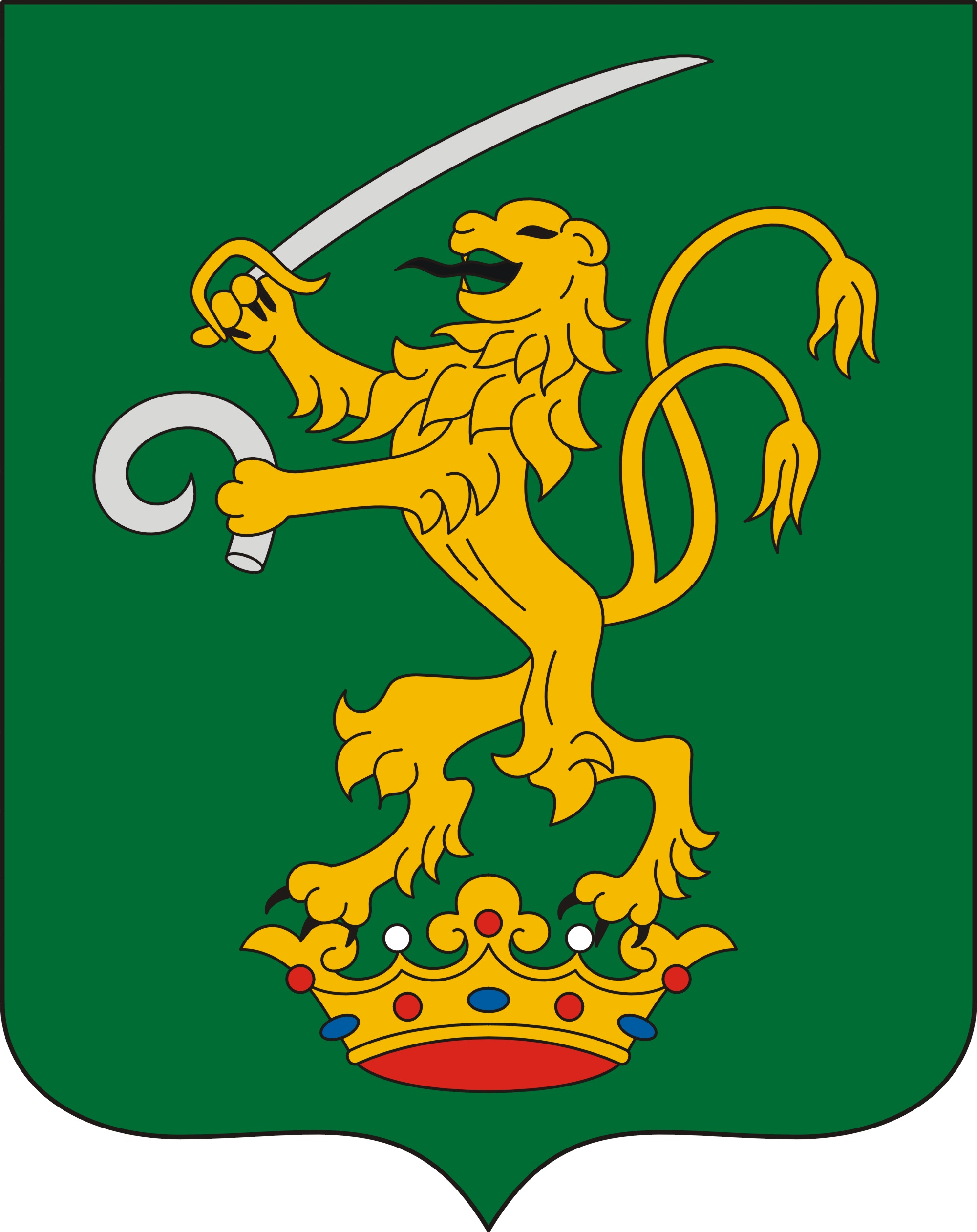 Coat of arms of Rigács, Hungary